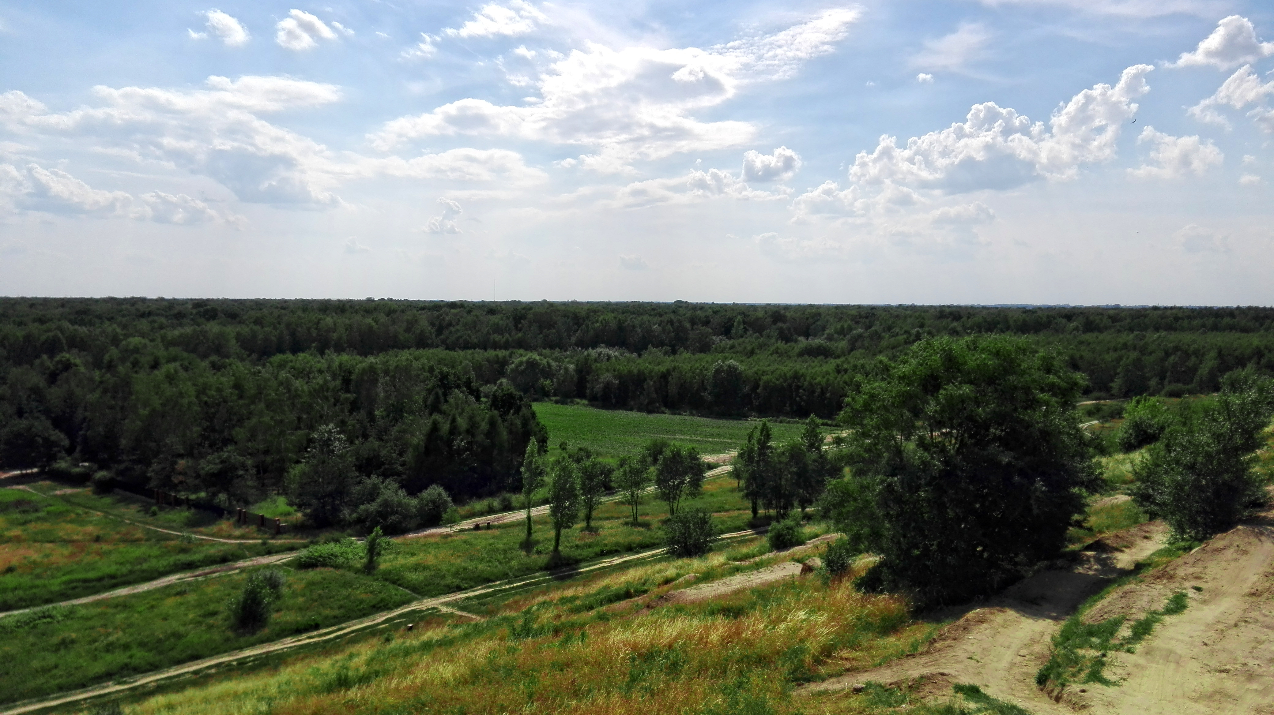 Kabaty Reserve and Kabaty neighbourhood as seen from the summit of Kazurka (in the borough of Natolin) This is a photography of protected area with CRFOP ID PL.ZIPOP.1393.RP.383